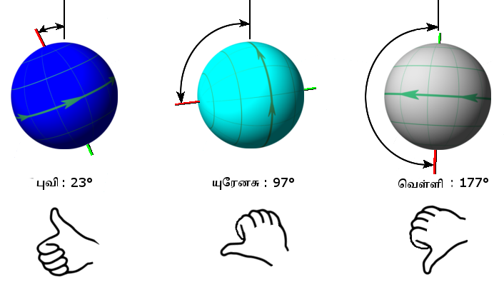 Tamil translation of planet axis comparison